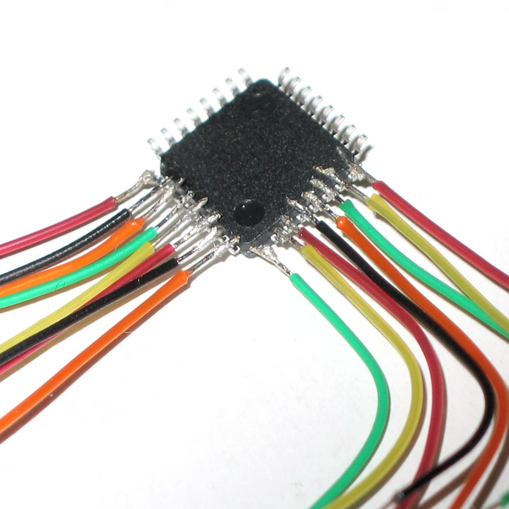 This image shows a 32-pin MQFP (Metric Quad Flat Pack) surface mount integrated circuit half way through the manual soldering process. 16 pins have been soldered with wire wrap wire, which will later be fixed into a DIP chip holder.